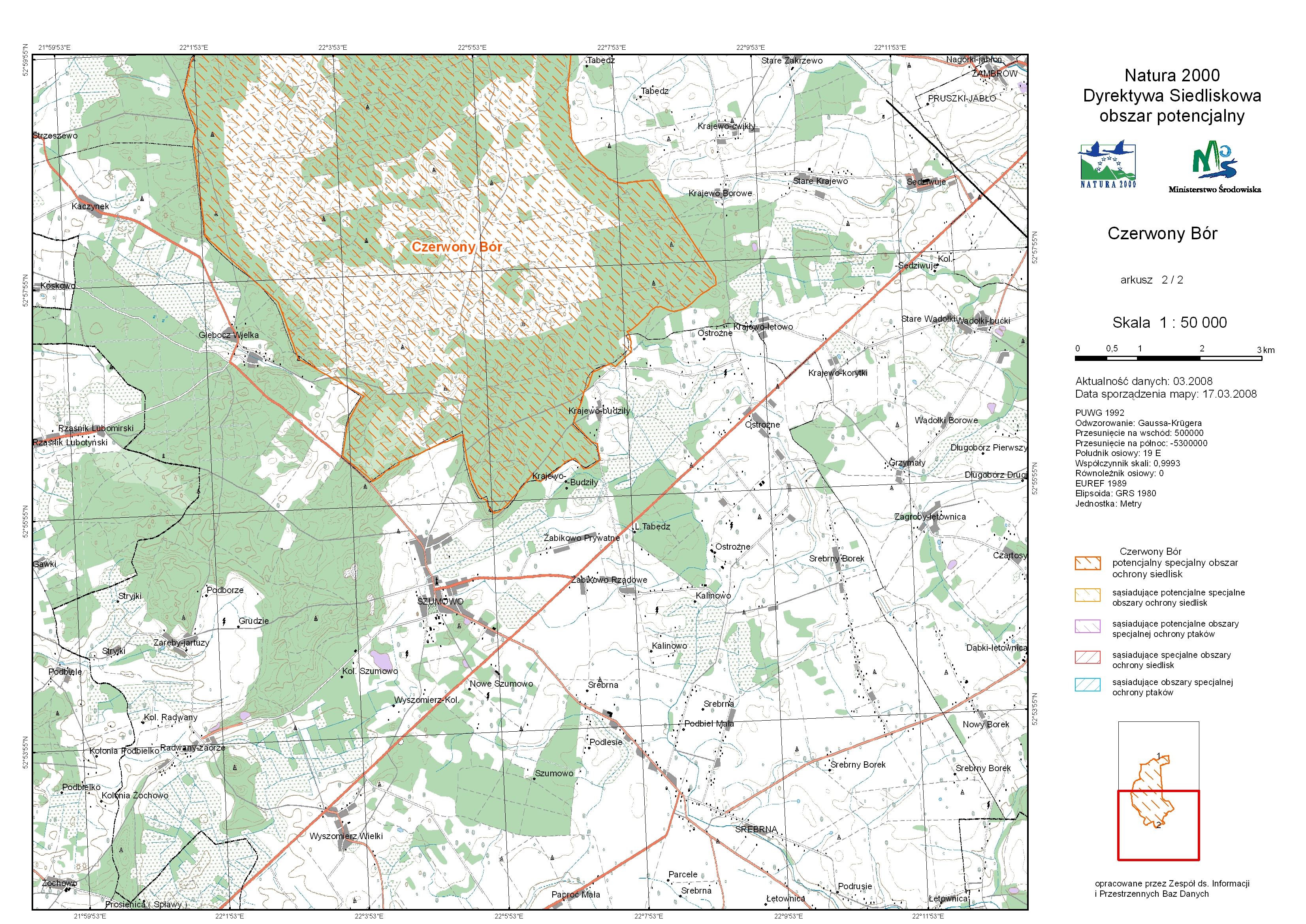 map of potential special protection area of NATURA 2000 - Czerwony Bór , scale 1:50 000, sheet 2/2